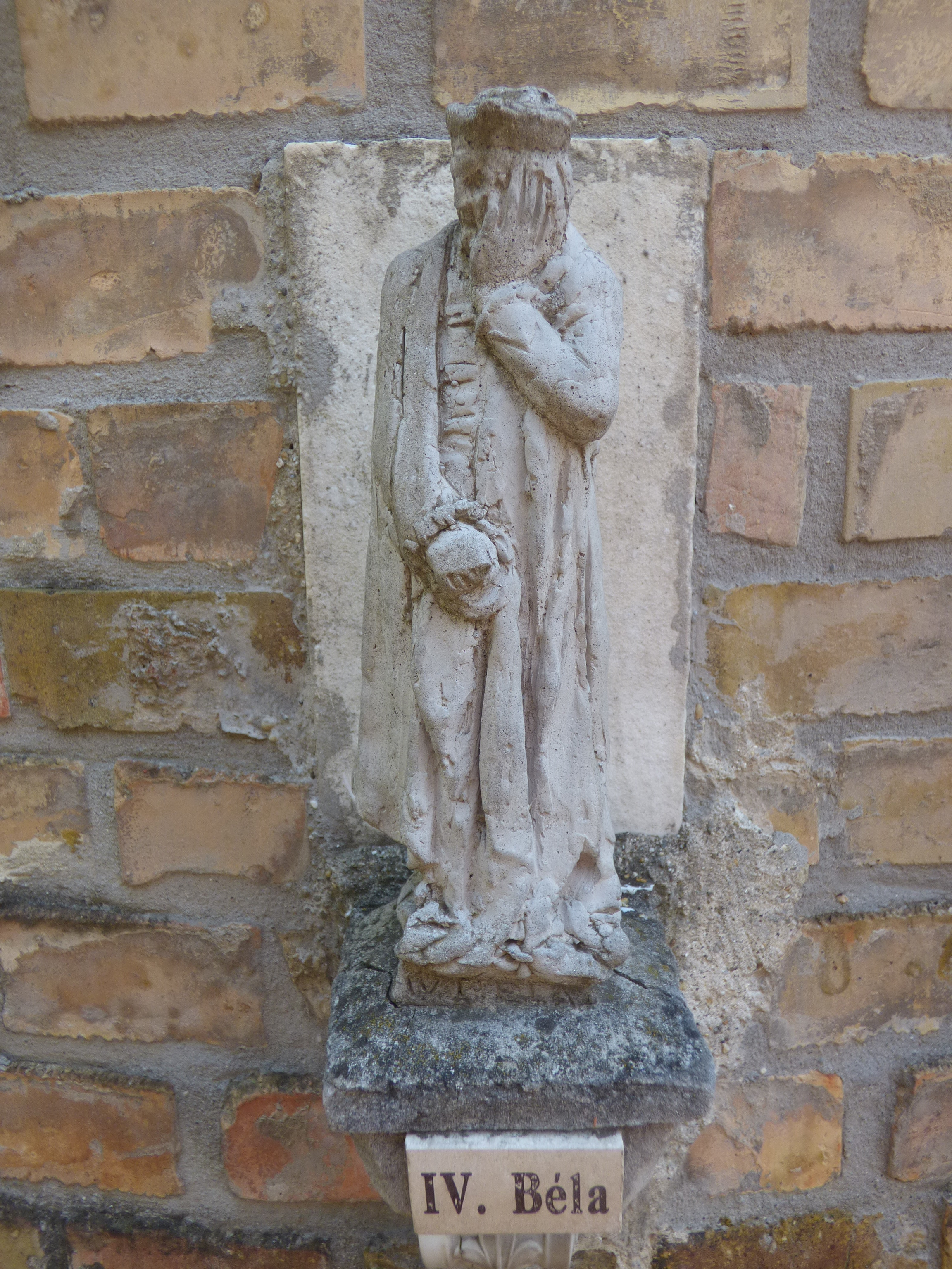 IV Béla szobra a Bory-várban